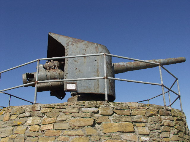 German 15 cm Schnelladekanone L/45 salvaged from SMS Bremse. At the Scapa Flow Visitor Centre, Hoy, Orkney Islands, Great Britain.